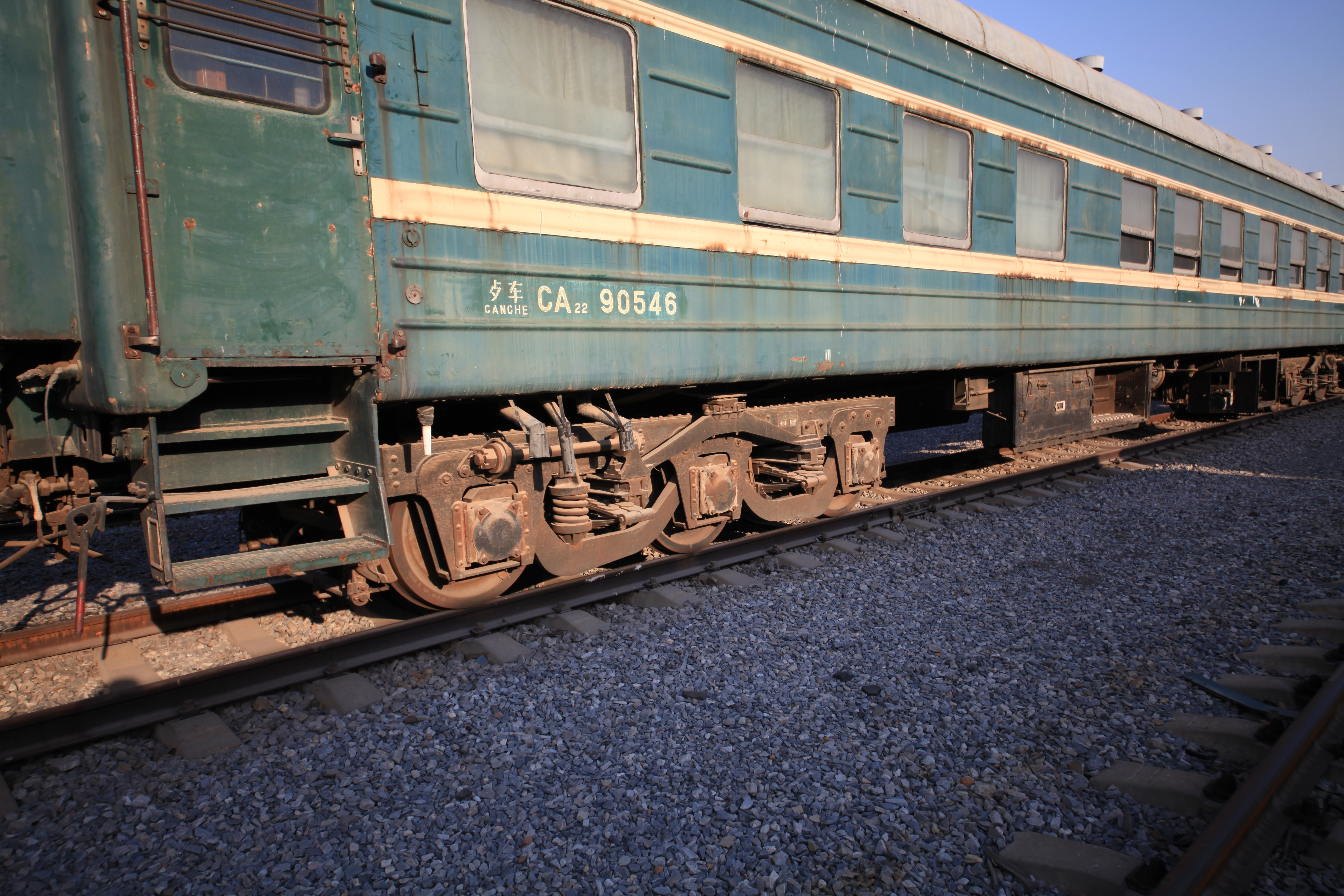 Chinese Railway Original CA22 cabin